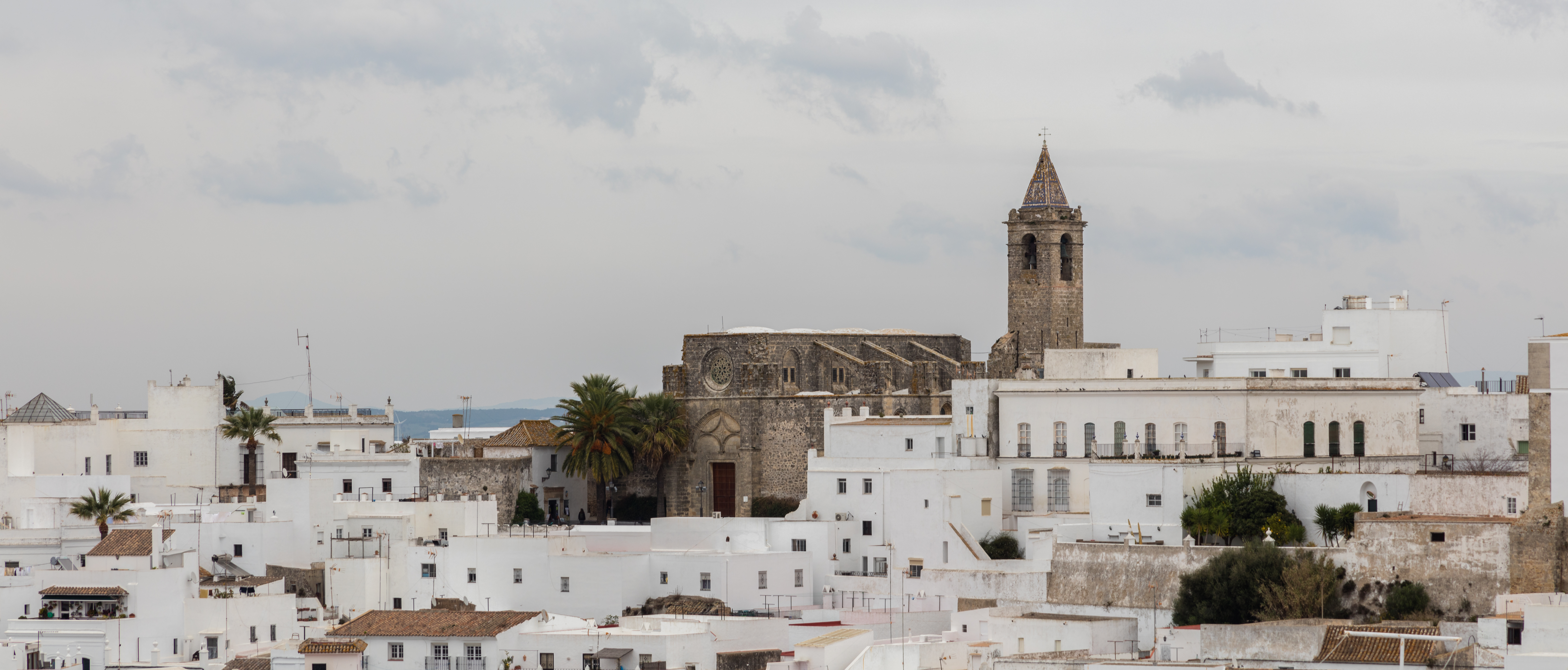 View of Vejer de la Frontera, Cádiz, Spain